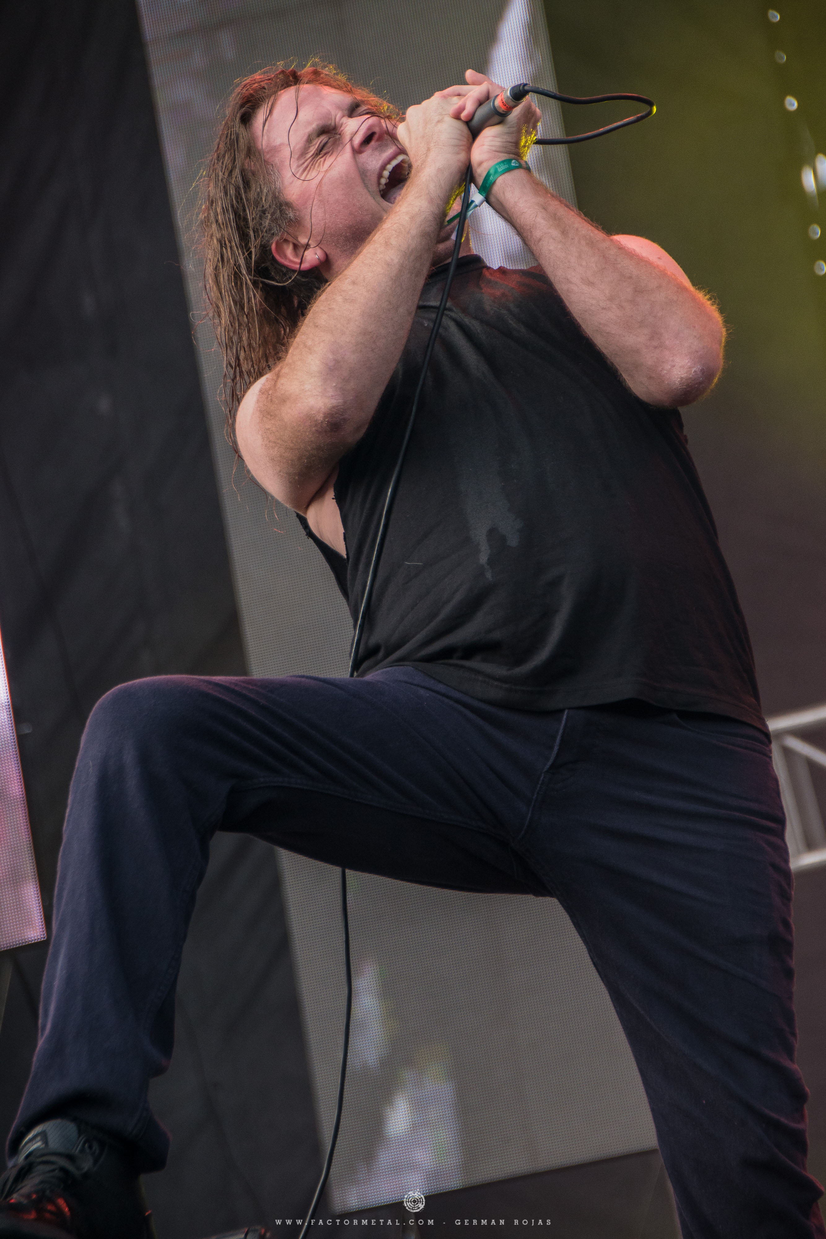 Rock al Parque 2018 Parque Simón Bólivar Bogotá, Colombia